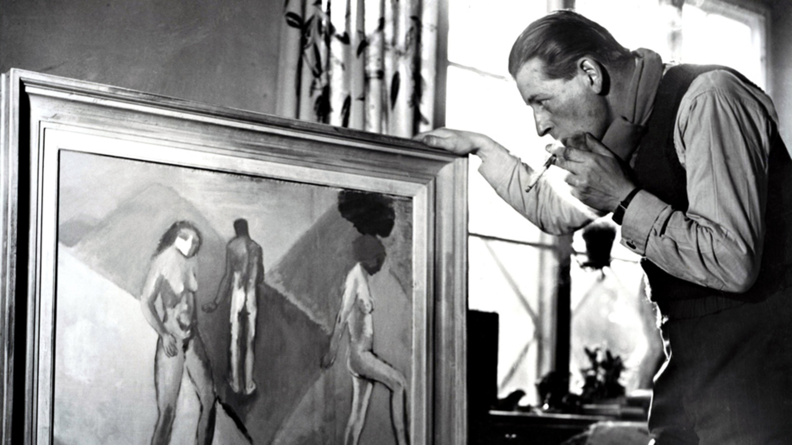 Photograph of the Finnish painter Otto Mäkilä (1904–1955).